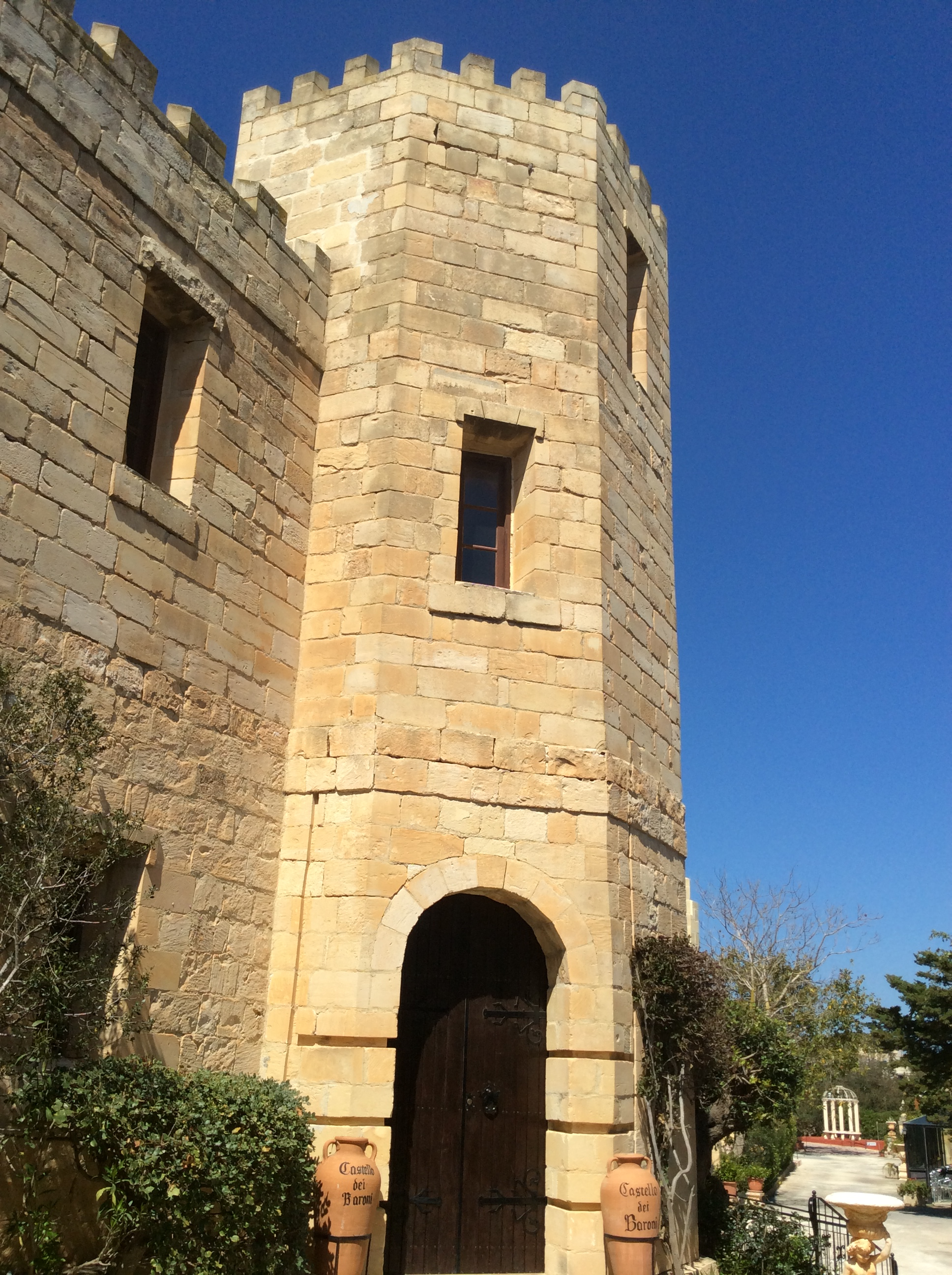 Castello dei Baroni